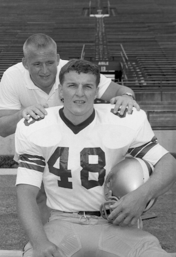 Portrait of FSU football player Dale McCullers in Tallahassee.